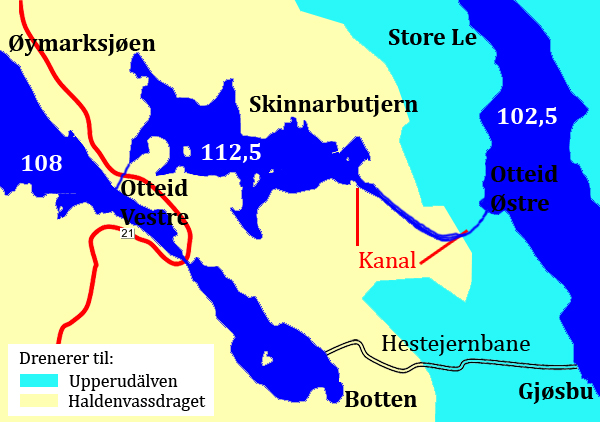 The Soot Canal - Map of the Otteid Canal